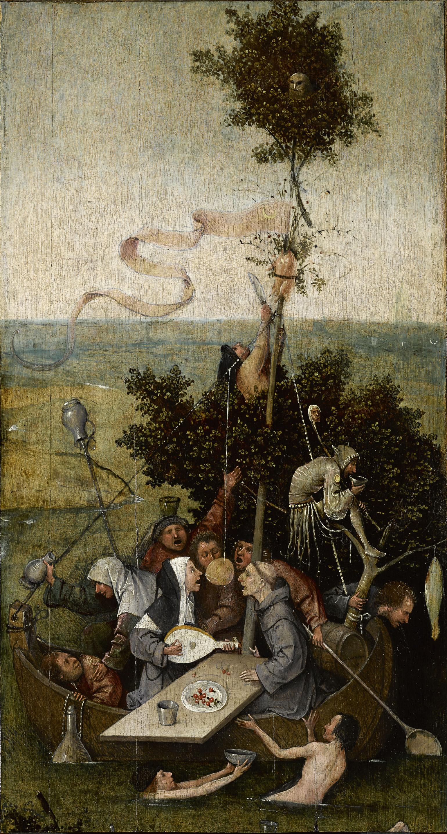 Fragment of the left wing of a triptych; see File:Jheronimus Bosch 003.jpg for the second fragment of the left wing of this triptych, File:Jheronimus Bosch 050.jpg for the right wing, and File:Jheronimus Bosch 112.jpg for the exterior.